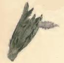 Stainton’s Natural History of the Tineina (1855–1873): Coleophora millefolii sprig of Achillea millefolium with larva-case attached